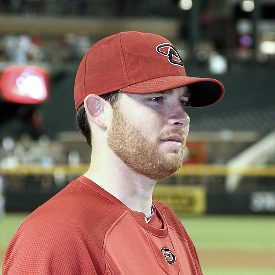 Kennedy, Phoenix, AZ